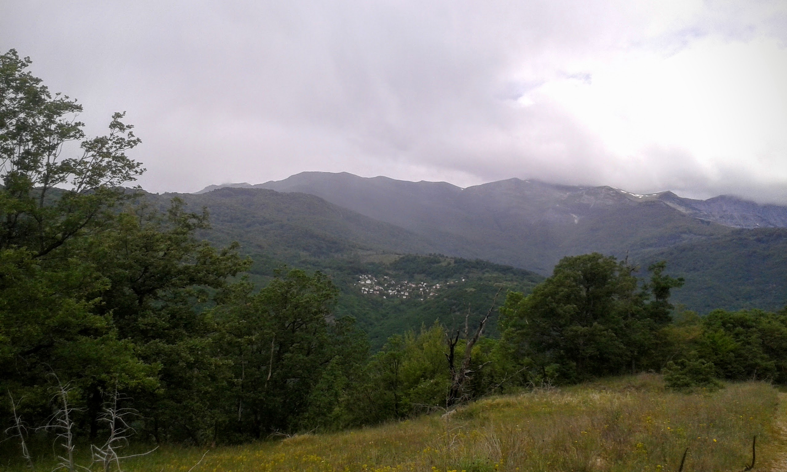 View of the village Papradište